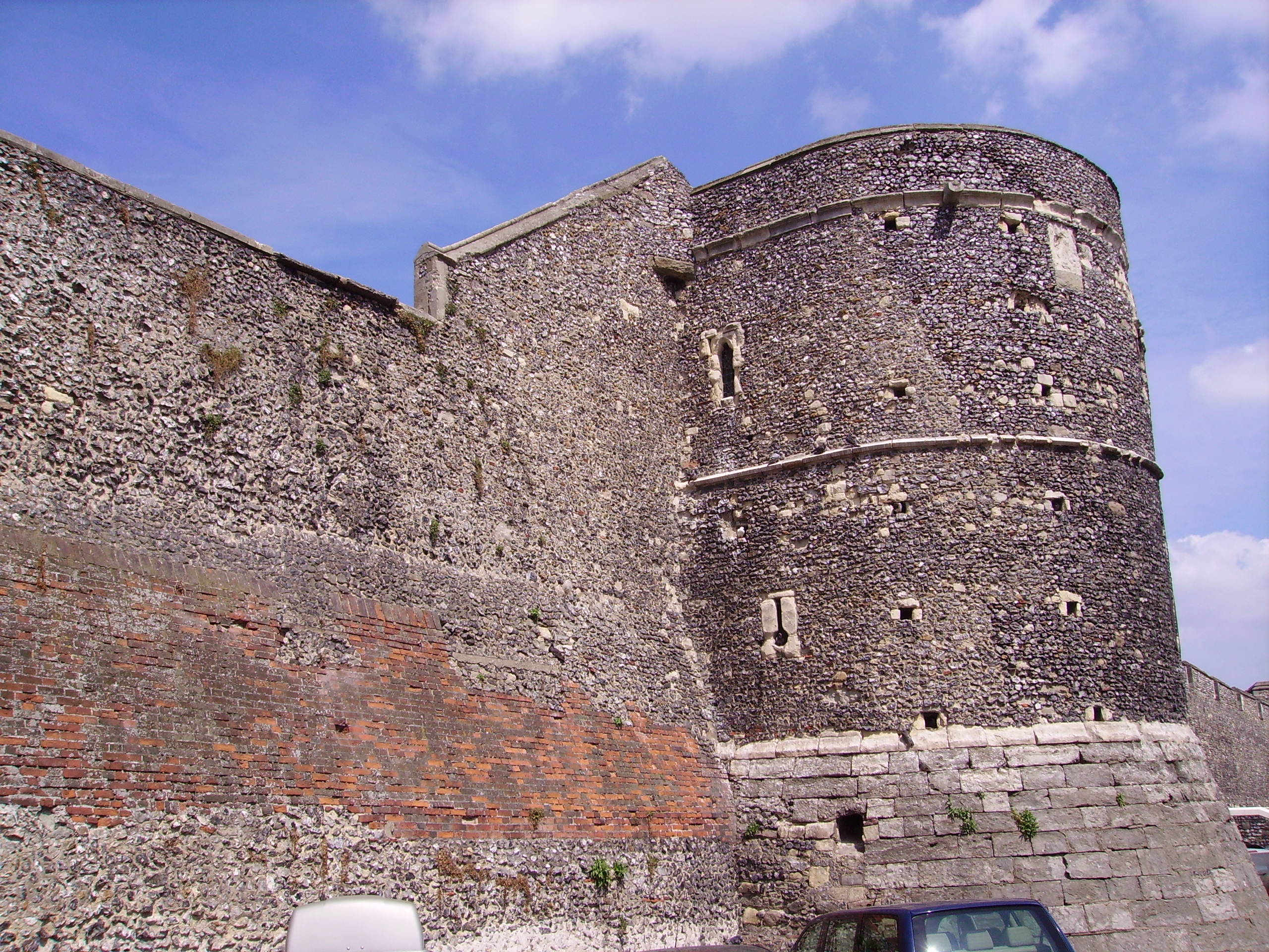 view of the Roman/medieval town wall of Canterbury in Kent, United Kingdom, near the cathedral